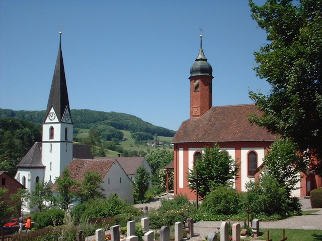 Roman Catholic (left) and Old Catholic (right) church St. George in Zuzgen